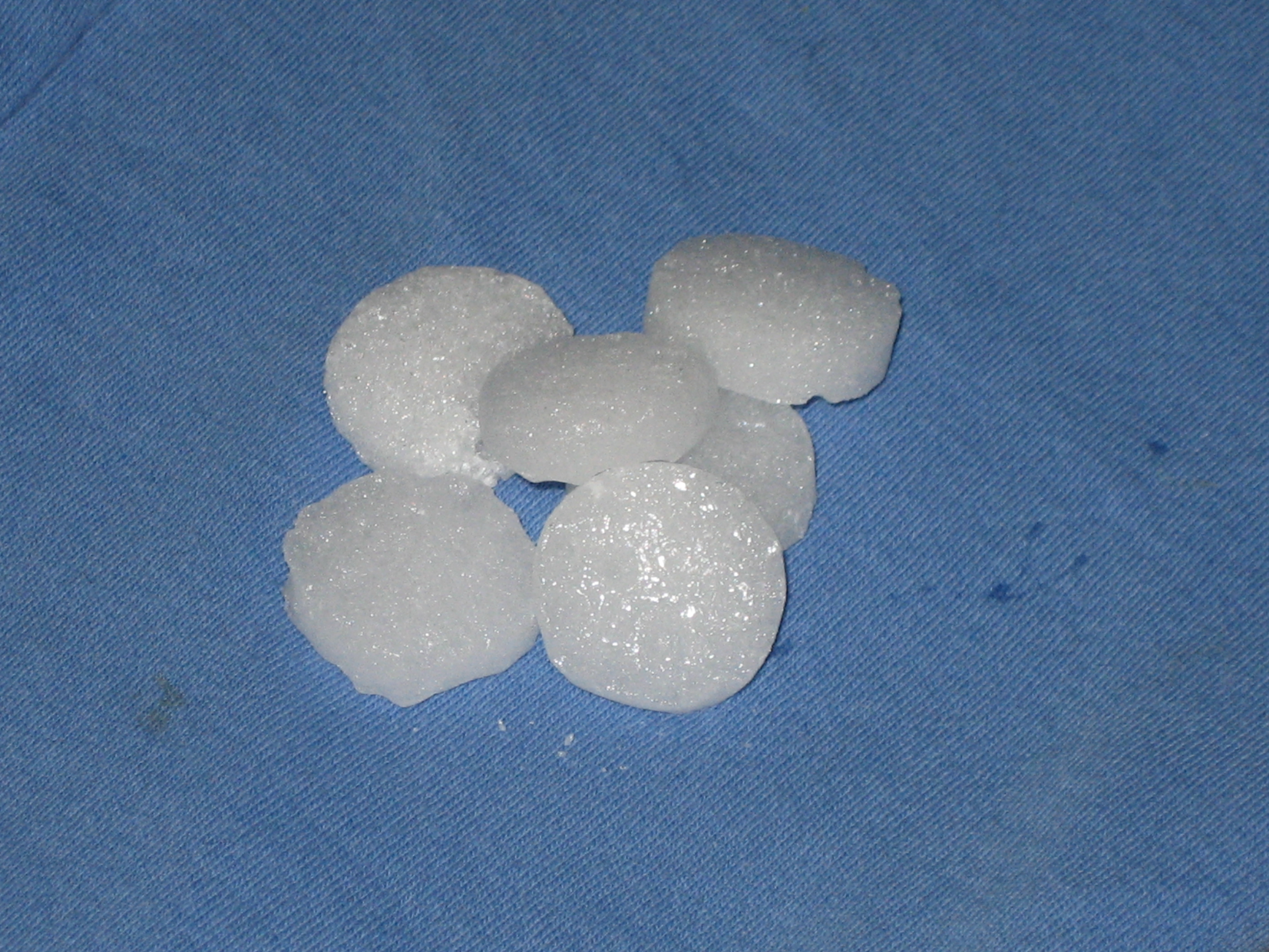 Mothballs